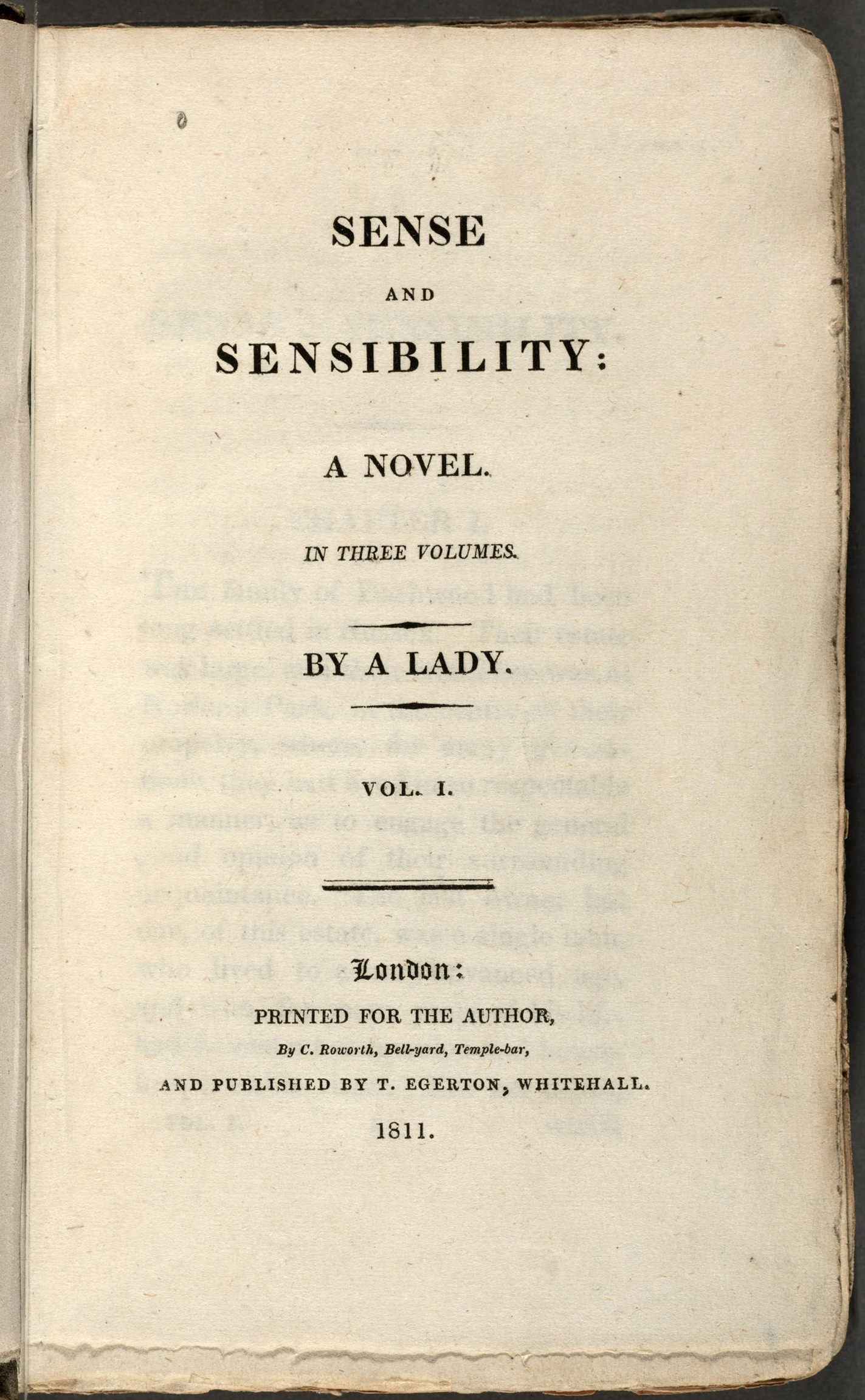 Title page from Sense and Sensibility: a novel, London: 1811, by Jane Austen (1775-1817). First edition. *EC8 Au747 811s (B), Houghton Library, Harvard University